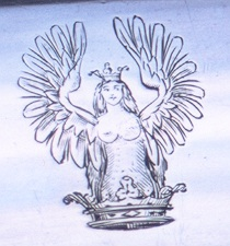 Bellona 1865 - (NB Marking on Silver